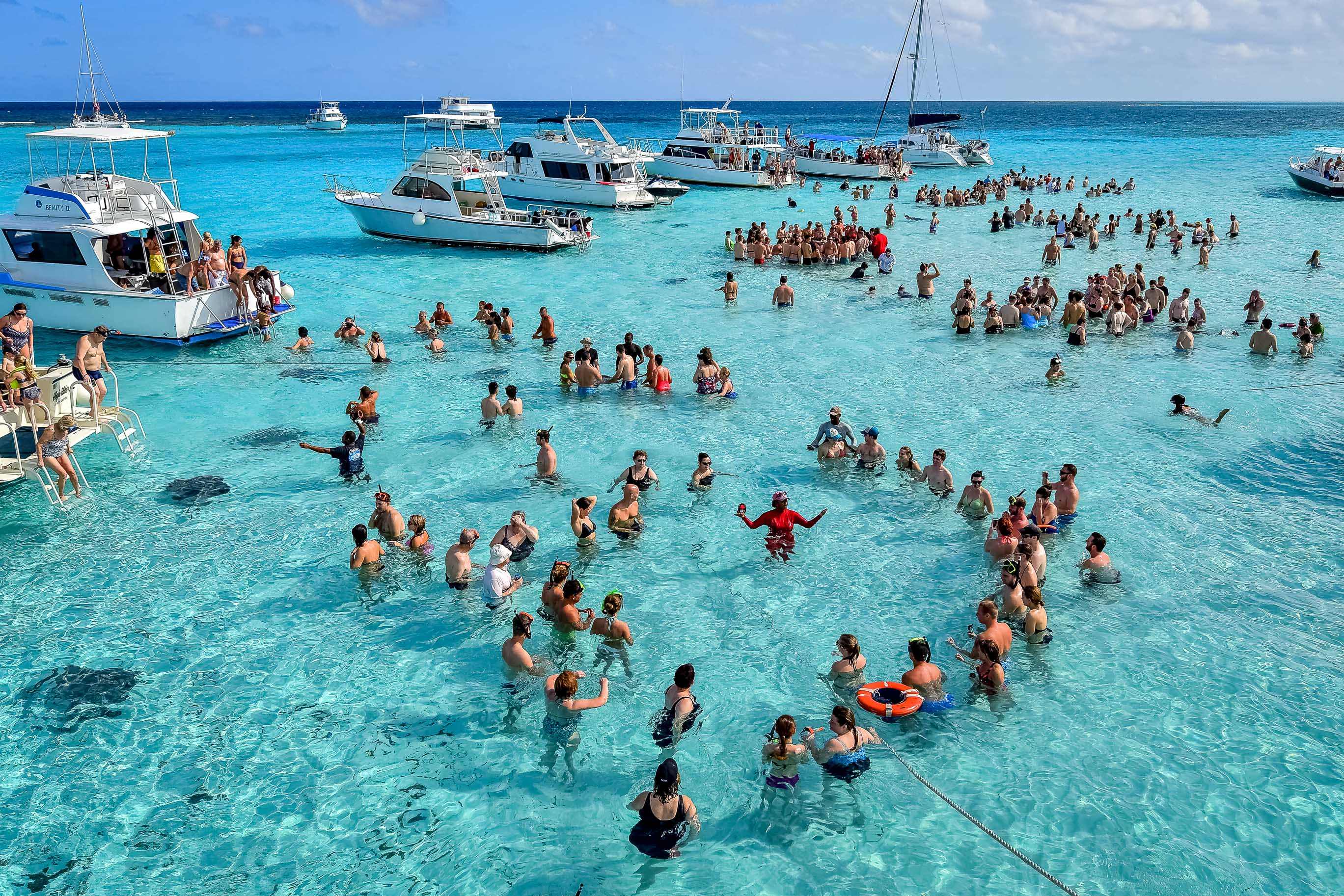 tourists, grand cayman, sandbar, caribbean, cruise